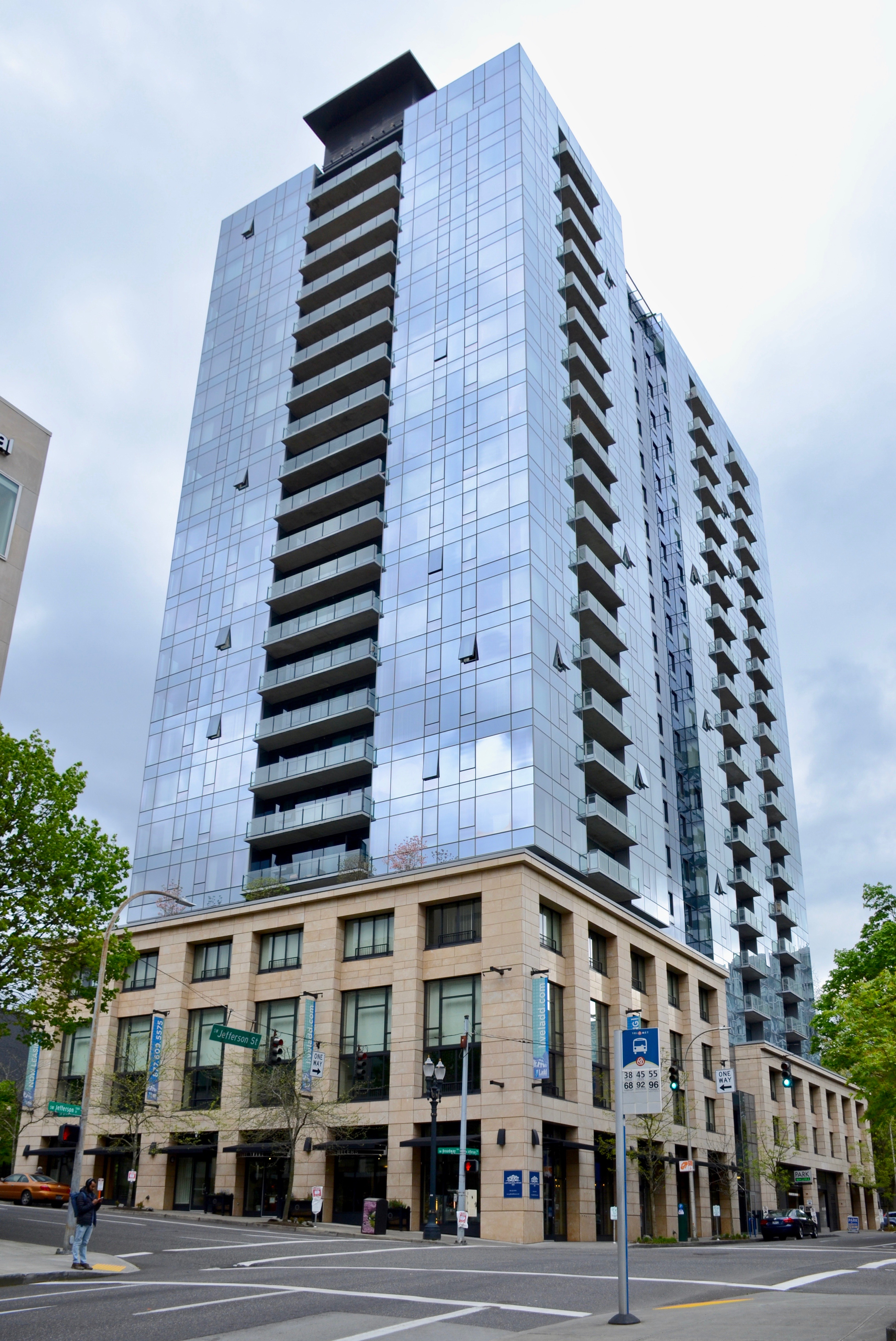 The Ladd Tower, in downtown Portland, Oregon, from the east. A TriMet bus stop sign on Jefferson Street is in the foreground.